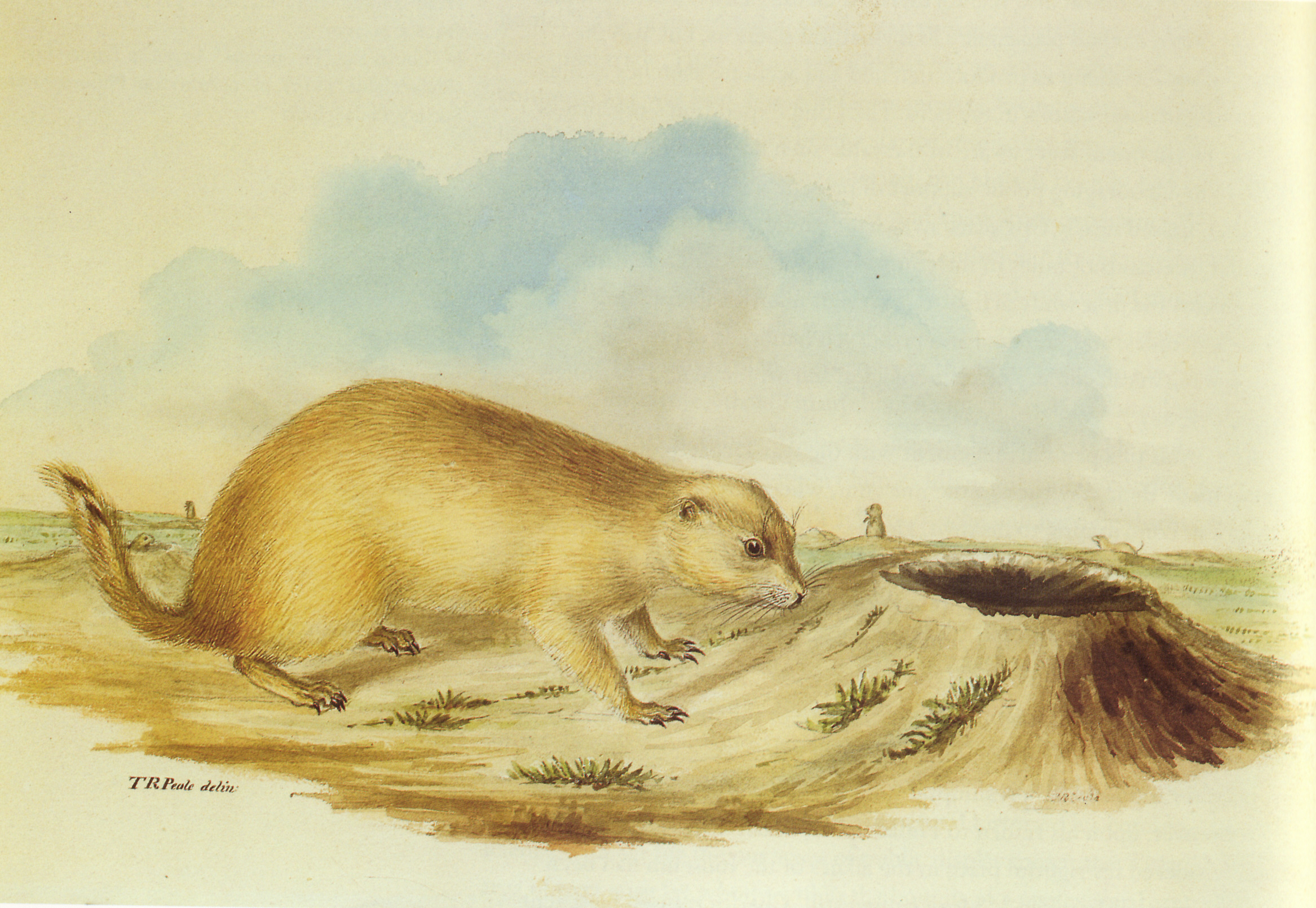 Prairie Dog — by Titian Ramsay Peale (1799-1885). Technique: watercolor Private collection.